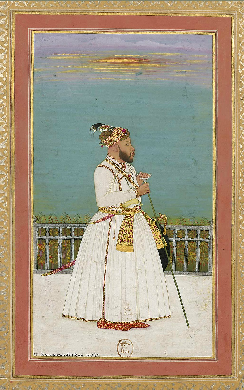 The vizier Qamar ud-Din circa 1735 Bibliothèque nationale de France, Paris